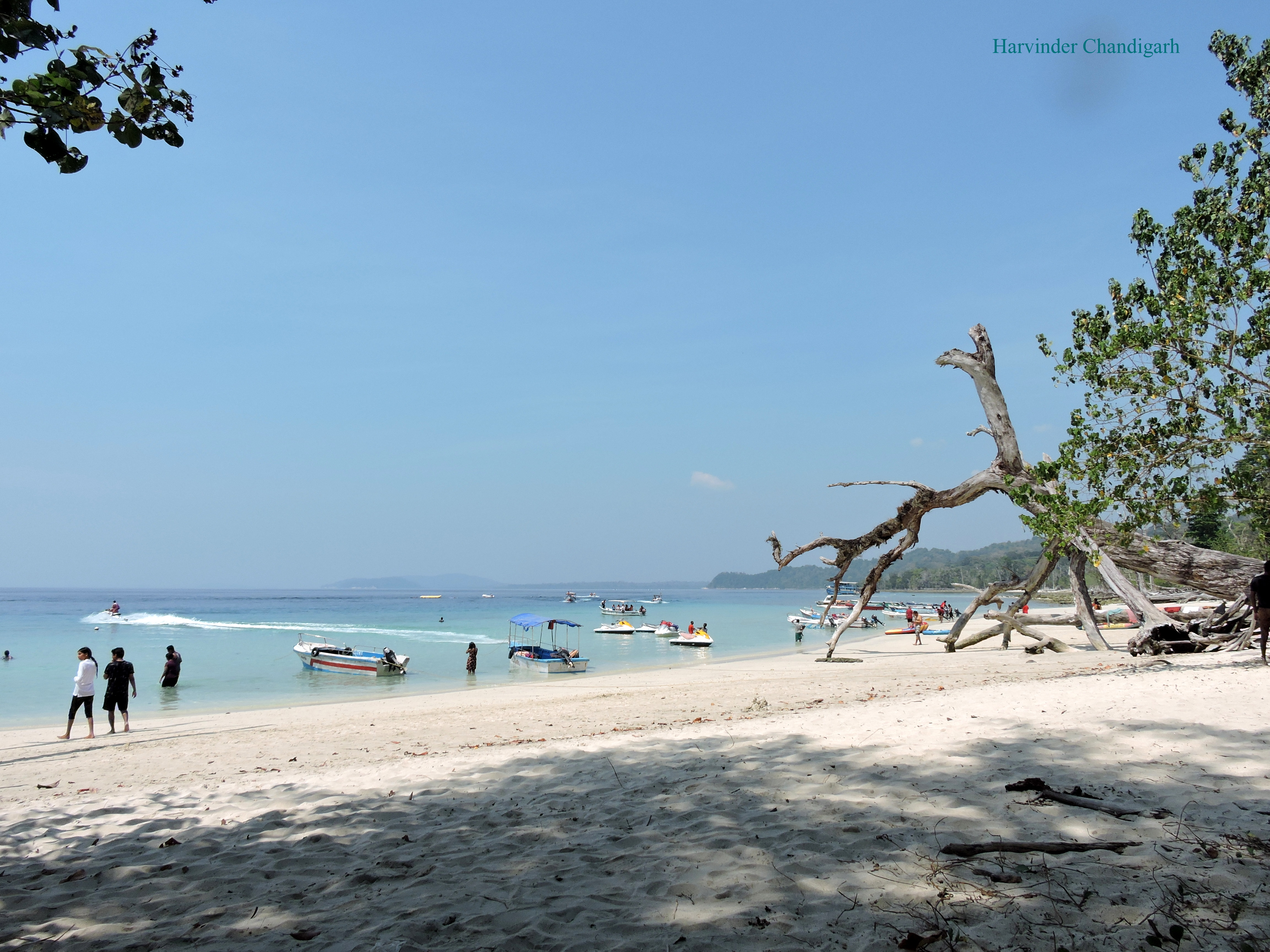 Elephenta beach , Havelock Island, Andamn,India